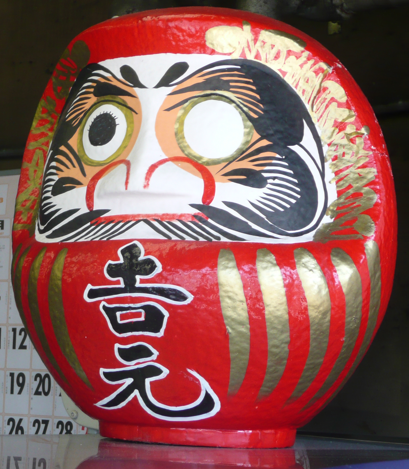 Traditional Japanese Daruma Doll, Kyoto, Japan